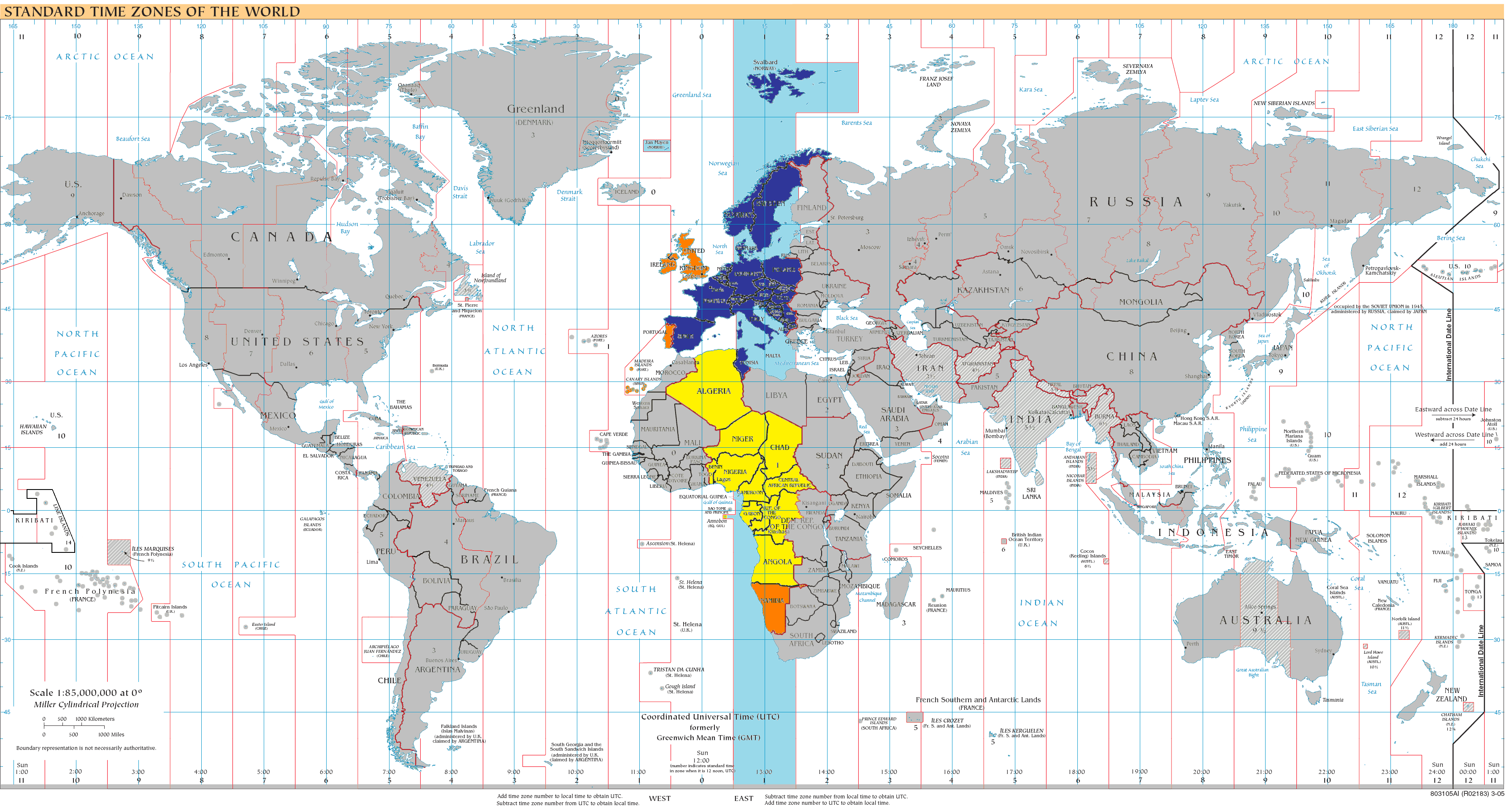 World map of time zones as of 2008, on the Miller Cylindrical Projection and with highlighted UTC+1 zone. Dark Blue - UTC+1 during Northern Winter / Southern Summer Orange - UTC+1 during Northern Summer / Southern Winter Yellow - UTC+1 all year round Light Blue - UTC+1 sea areas